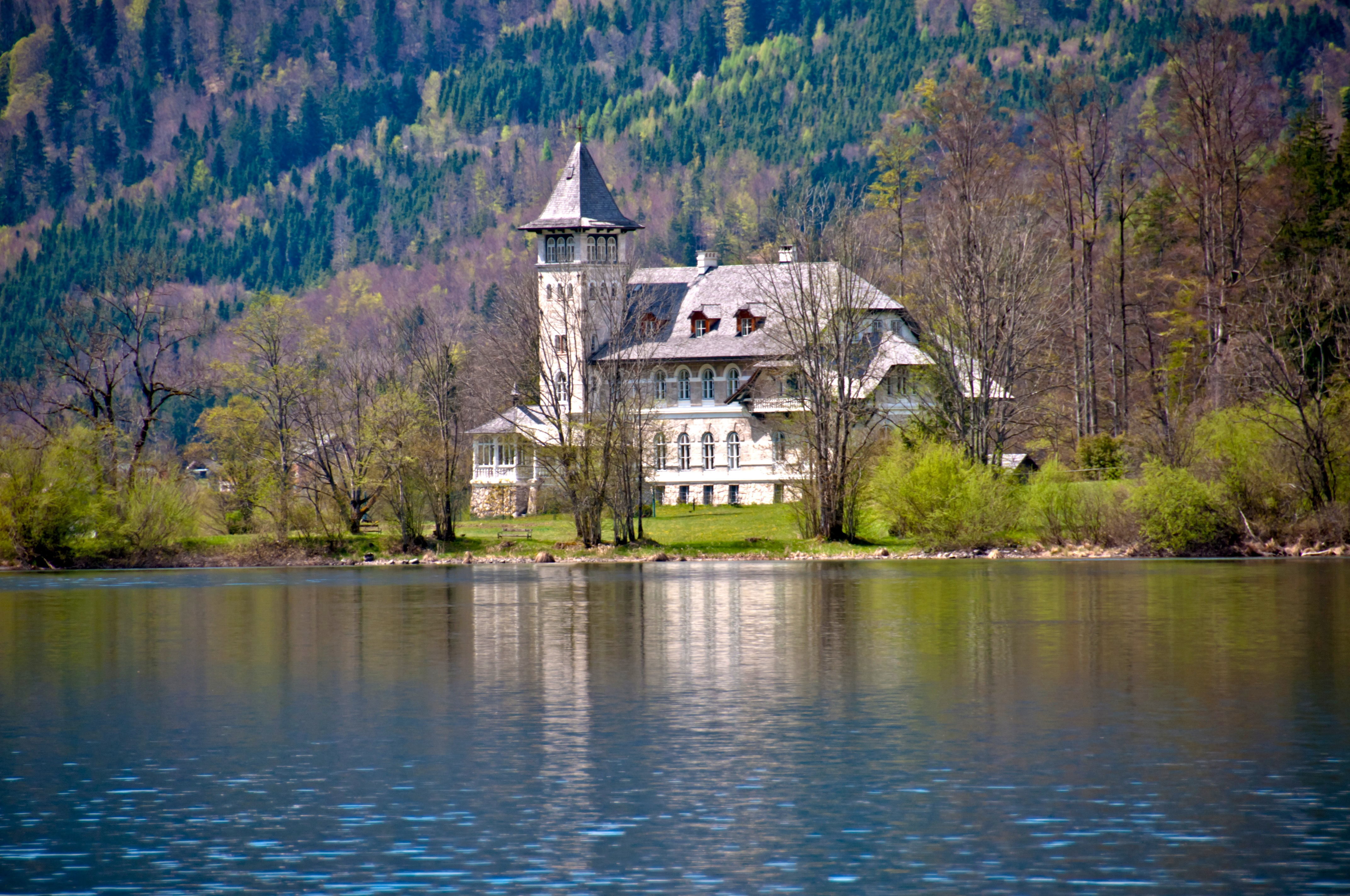 The Schloss Grundlsee at lake Grundlsee in Austria